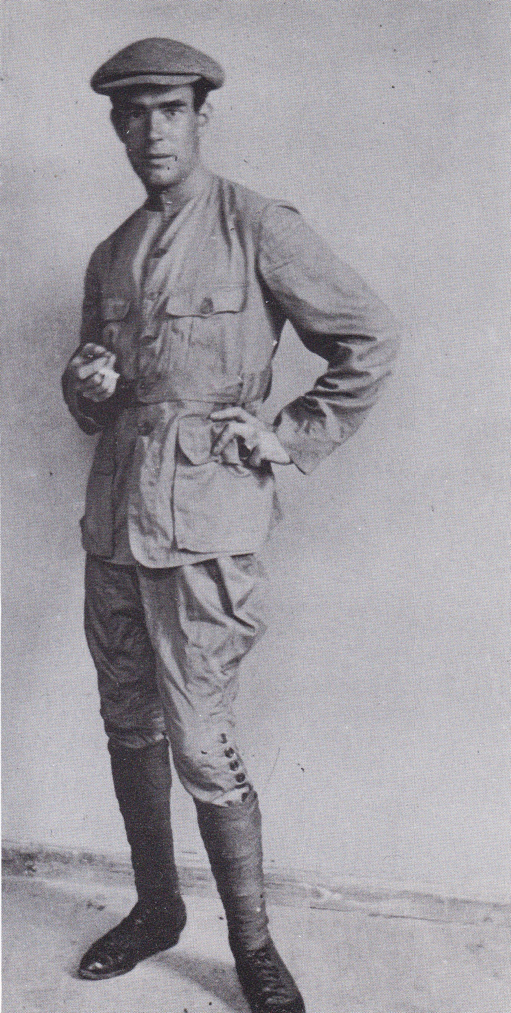 Dutch draughtsman and spy Henri ("Han") Pieck (Egypt, 1920)